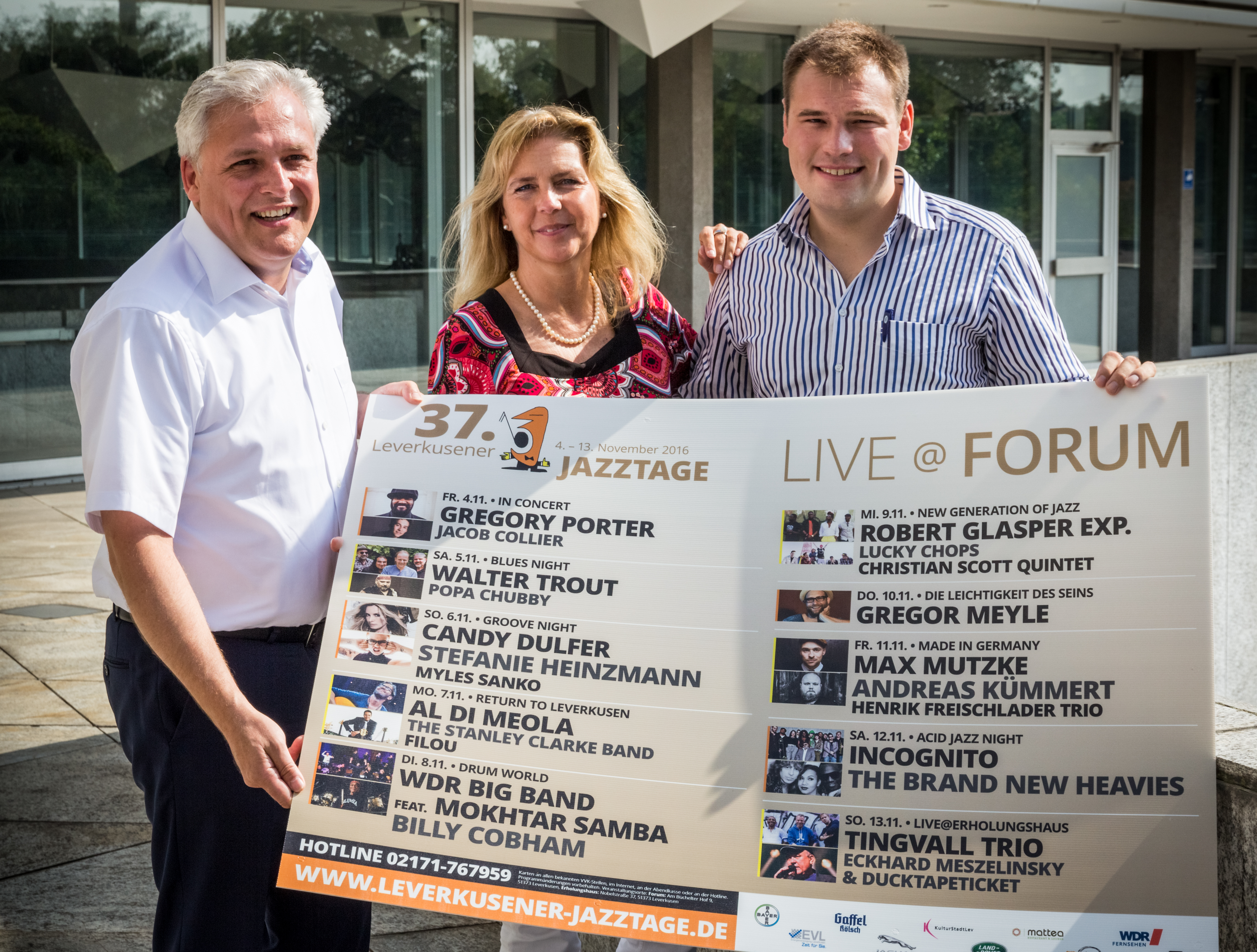 Leverkusener Jazztage 2016 - press conference (left to right: Marc Adomat, Biggi Hürtgen, Fabian Stiens)